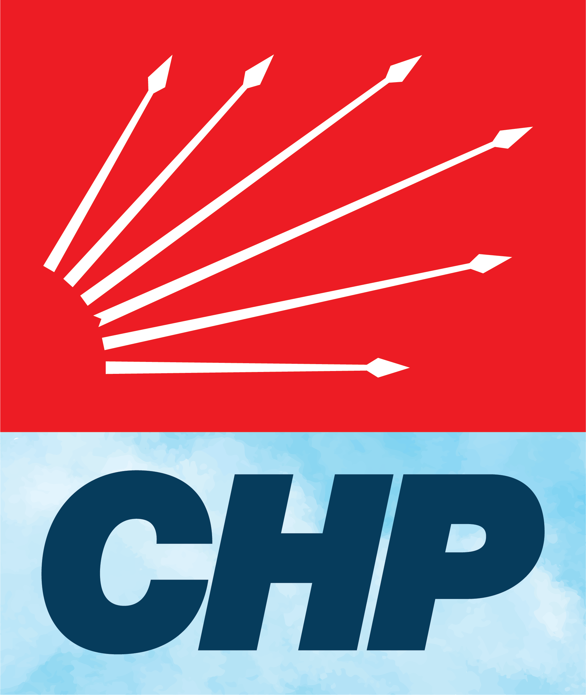 Logo of the Republican People's Party (Turkey)